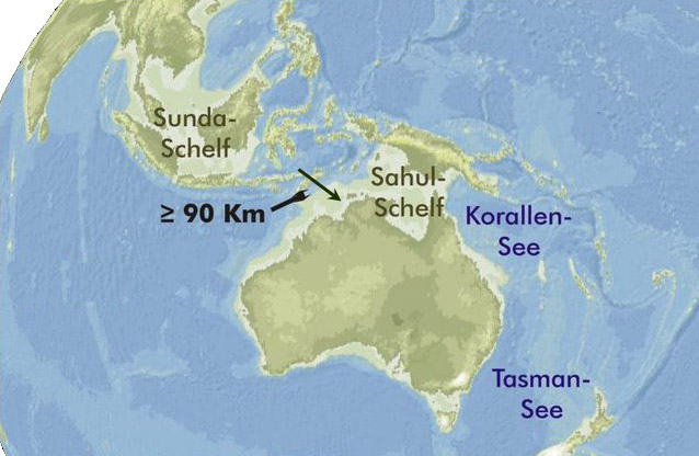 derviative work of a file listed at commons location